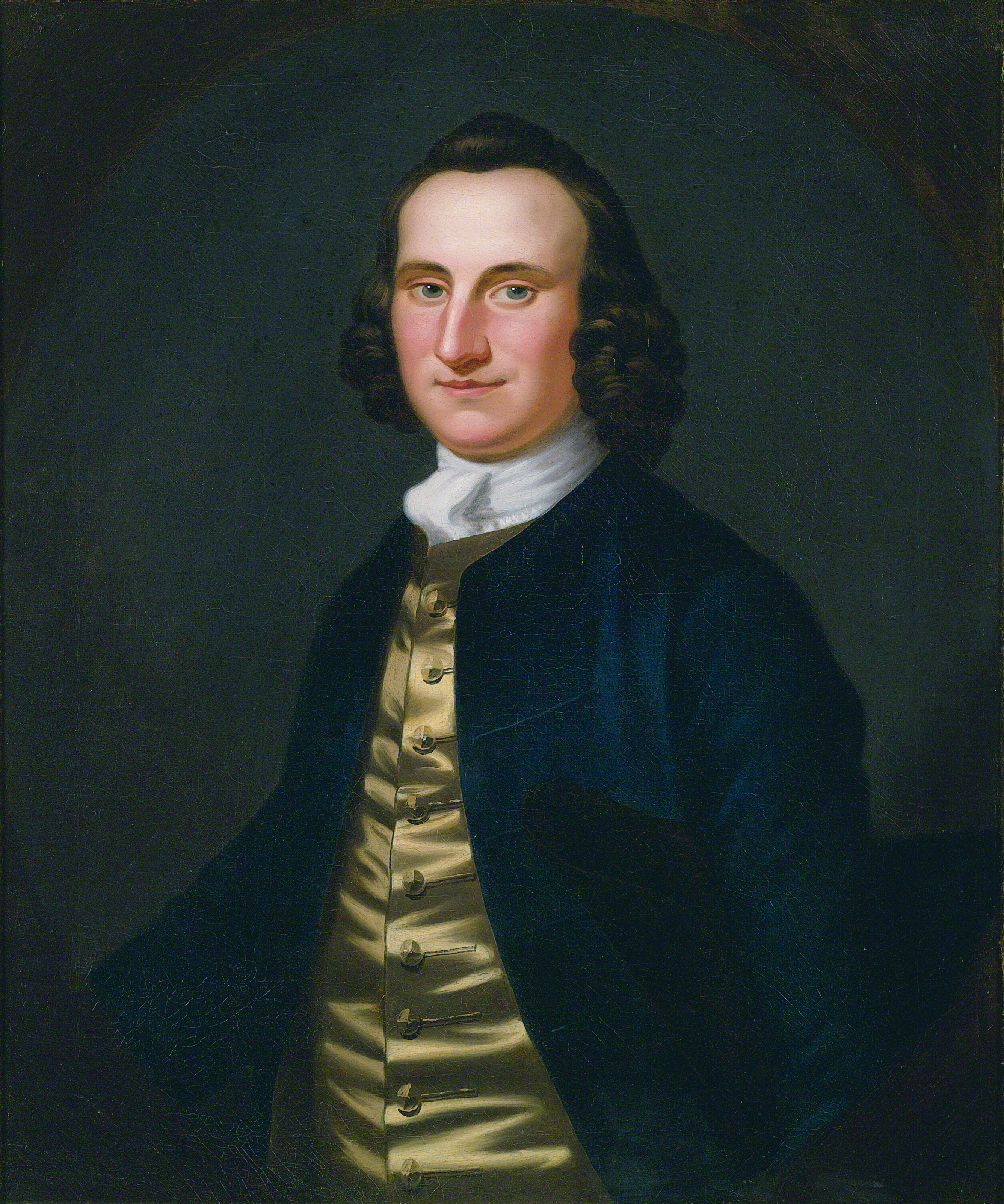 Thomas Willing oil on canvas 30.125 x 25 inch